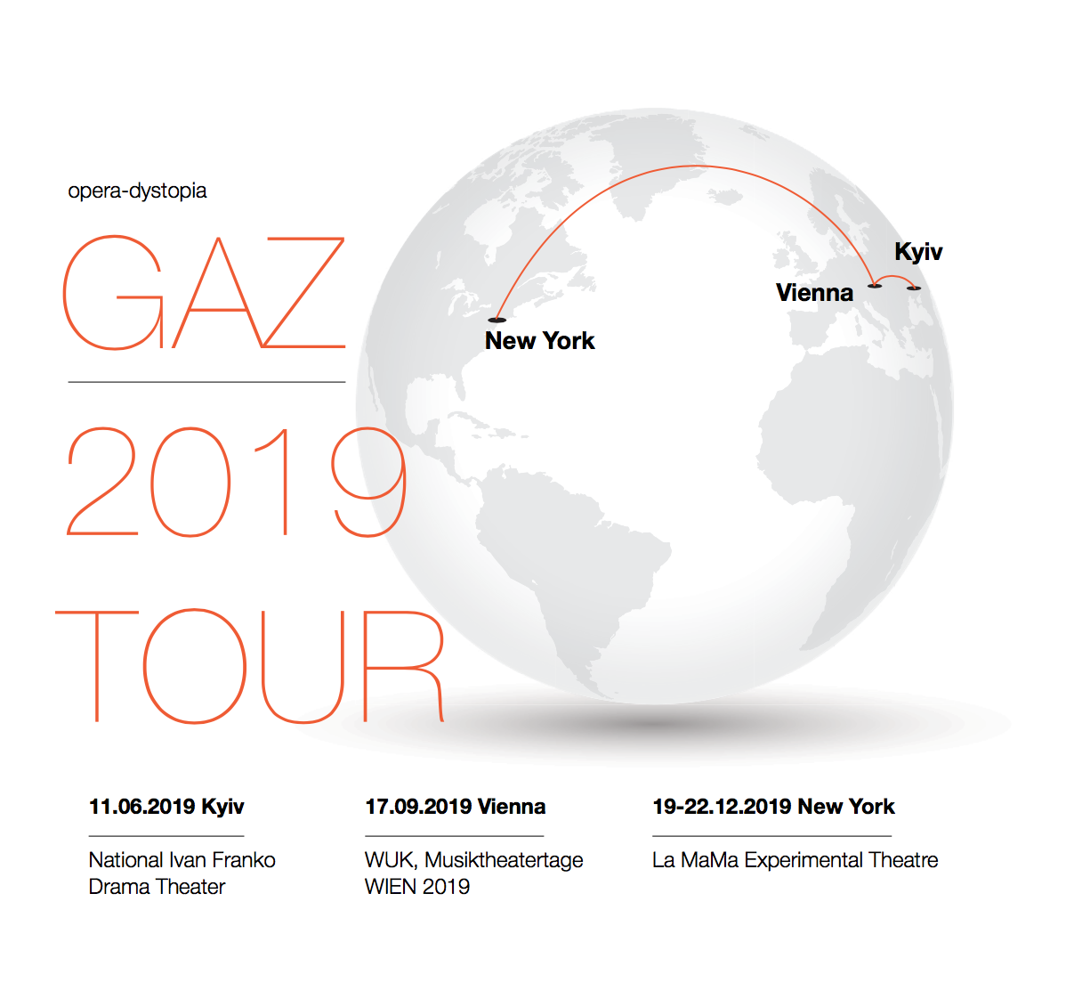 Opera GAZ 2019 – tour